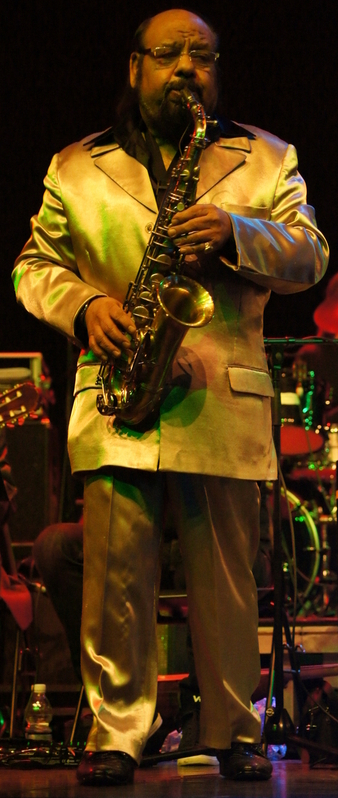 King Ferus Mustafov performing live in Ljubljana, Slovenia in 2018.